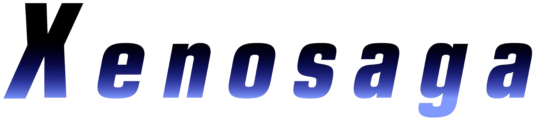 Logo from Xenosaga